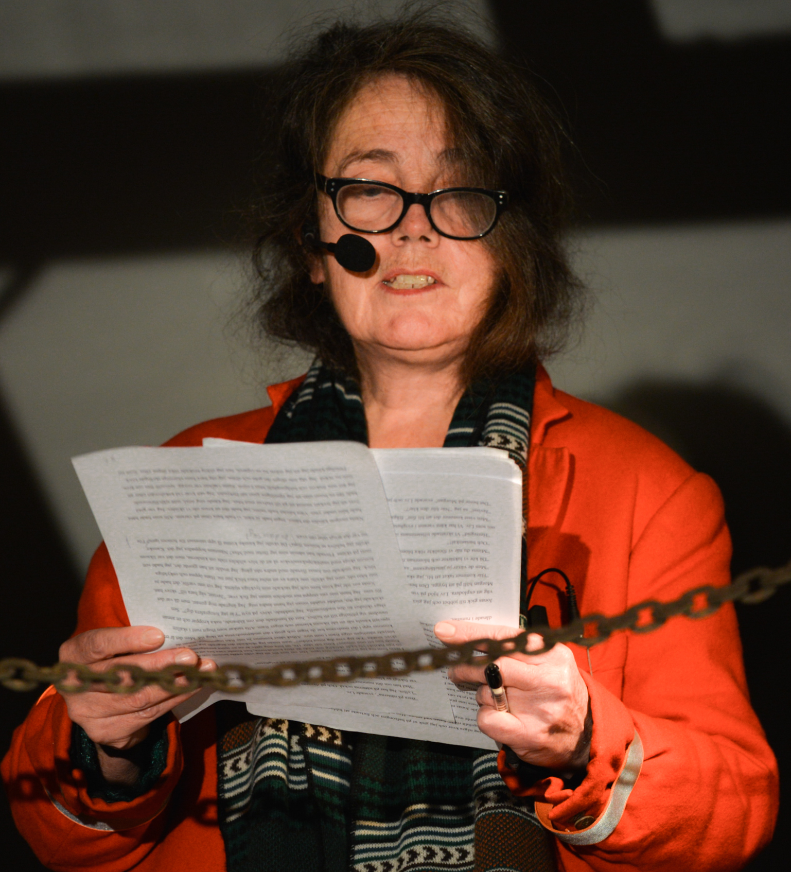 Kerstin Norborg in 2019